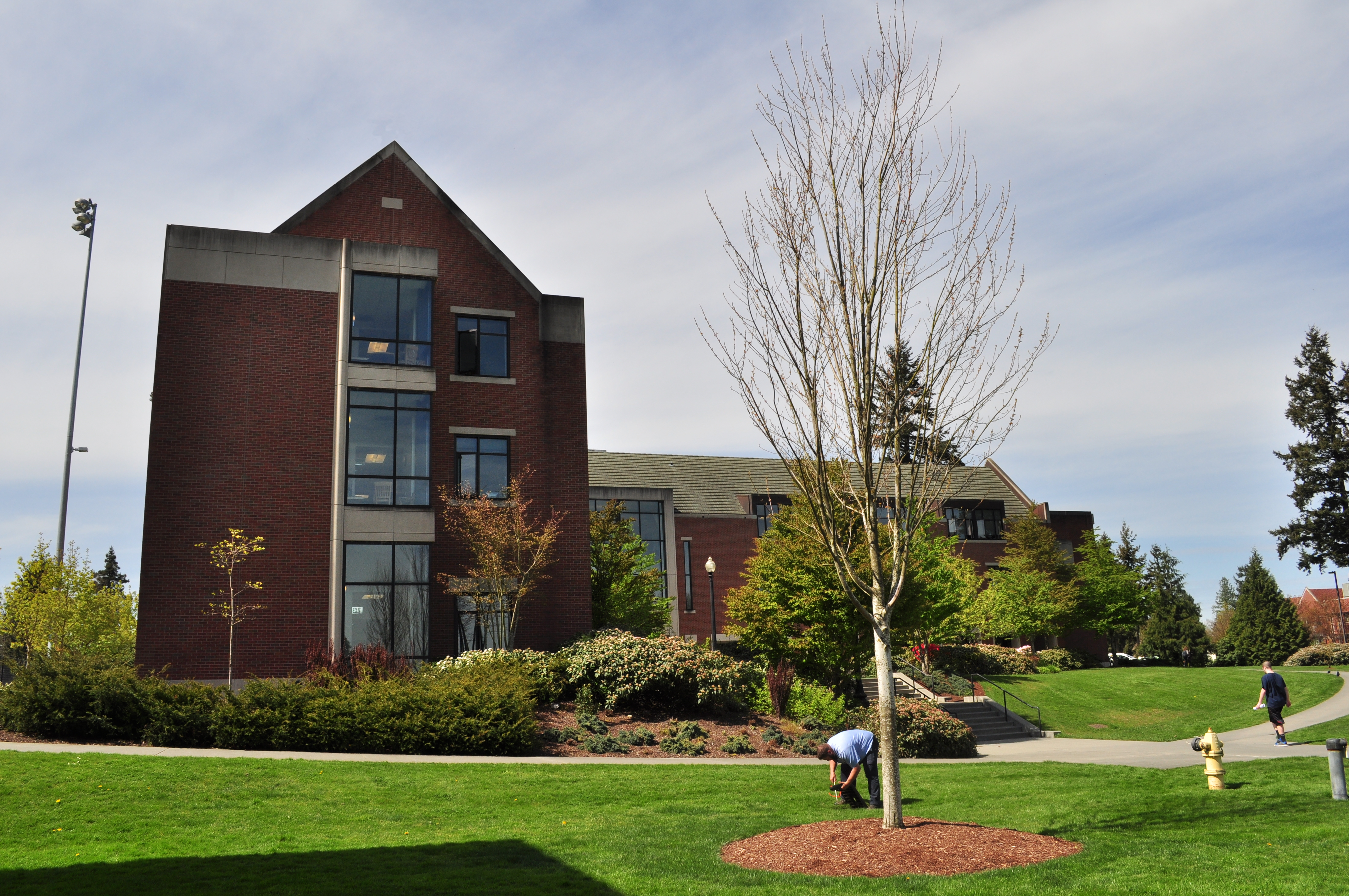 Wyatt Hall, University of Puget Sound, Tacoma, Washington.